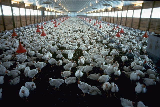 A commercial broiler (meat) chicken operation